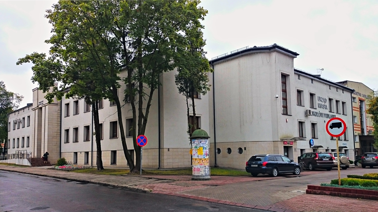 Town Hall of Sokolow Podlaski building